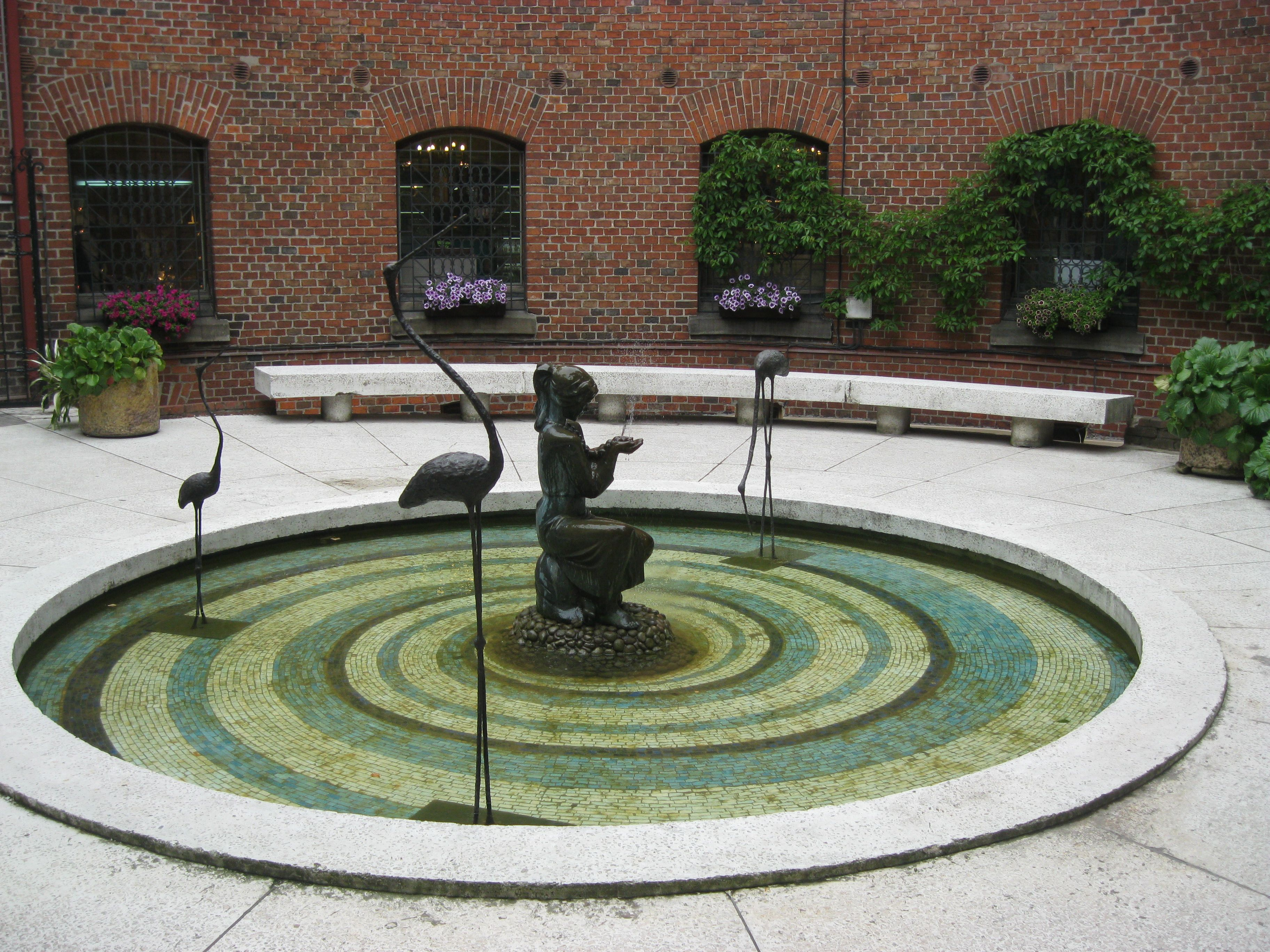 patio with mermaid